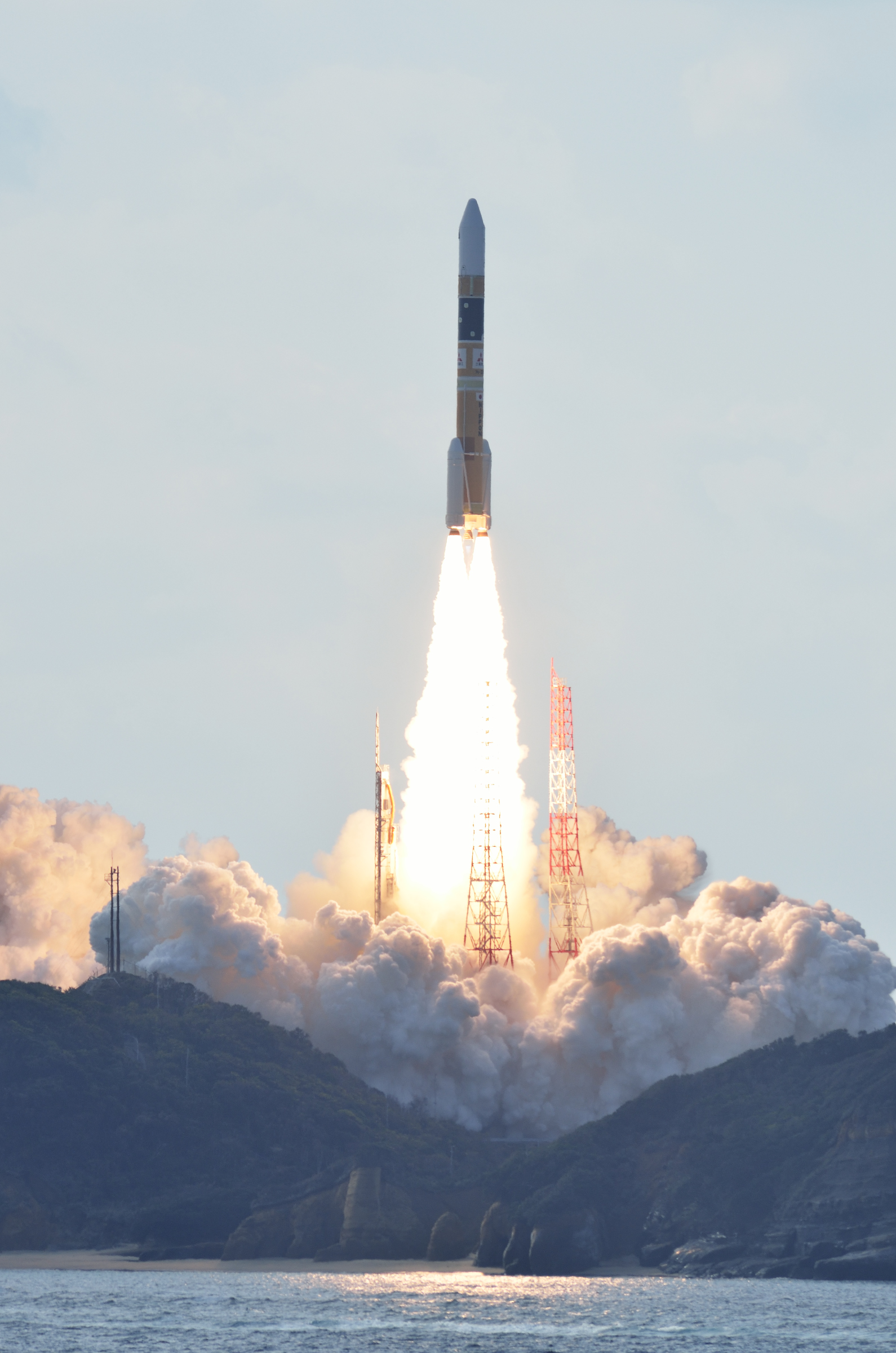 H-IIA Launch Vehicle Flight 27, launching the Information Gathering Satellite (IGS) Radar Spare.